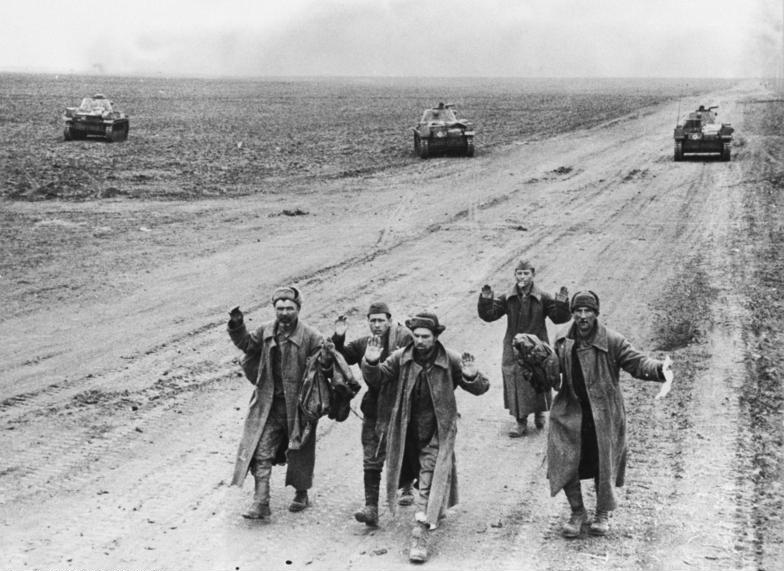 Soviet Union, Crimea. – Five Soviet soldiers with raised arms on their way to a prisoner camp, three German tanks in the background